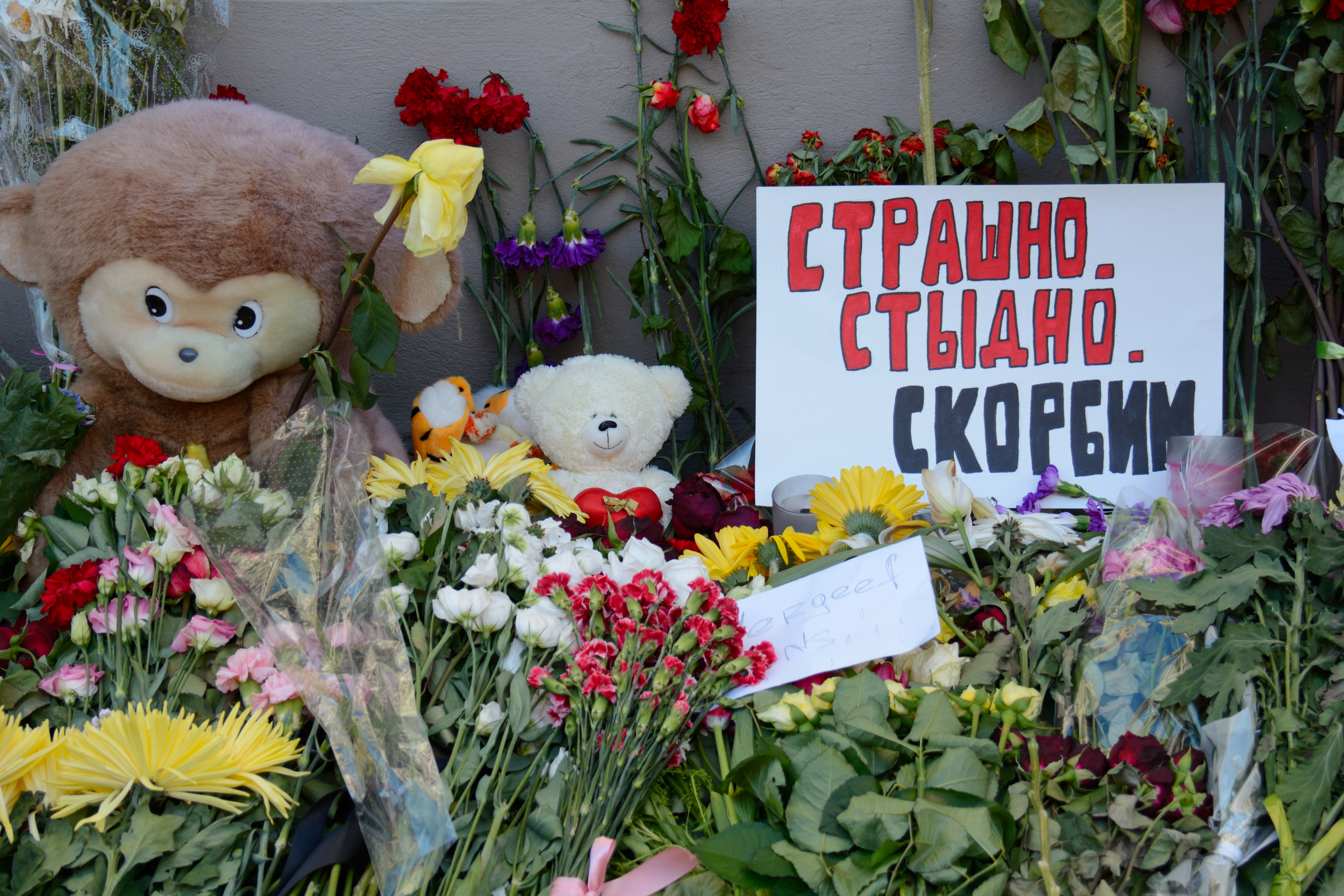 Flowers and toys at the Netherlands Embassy in Moscow for the victims of MH17. The texts read: "страшно. стыдно. скорби́м." ("We are shocked. We are ashamed. We mourn." in Russian) and "Vergeef ons" ("Forgive us") in Dutch.